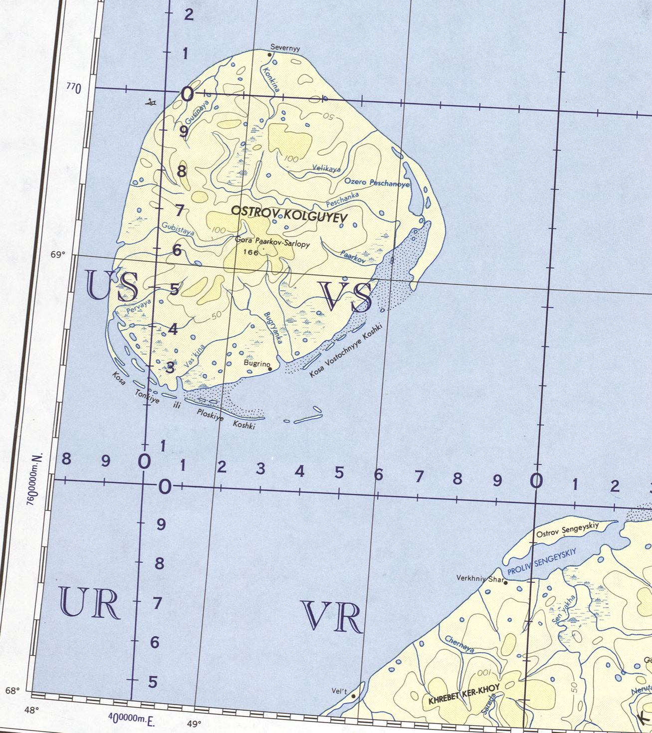 International Map of the World 1:000000, part covering Kolguyev Island, Russian Arctic